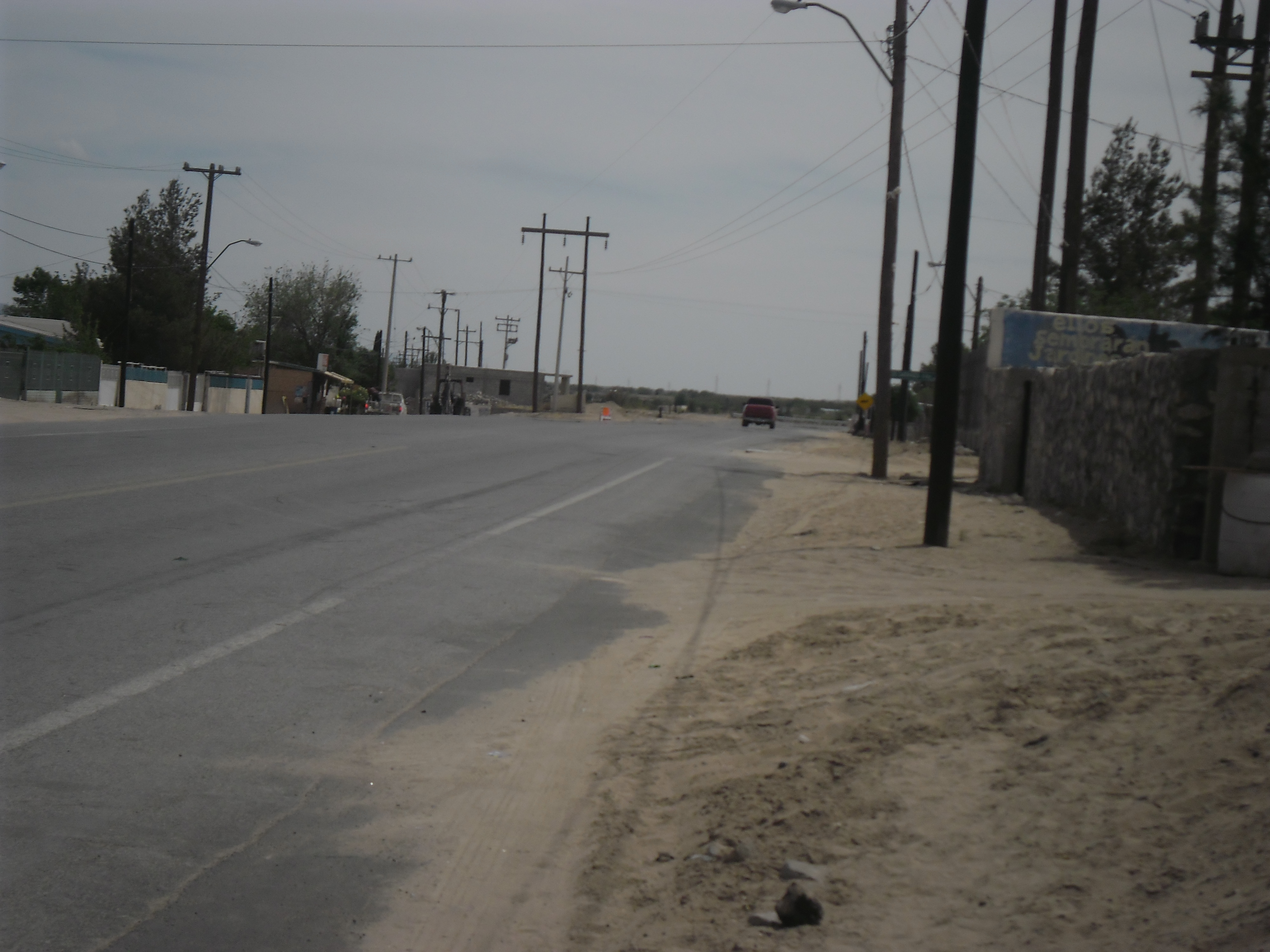 CARRETERA Juarez Porvenir